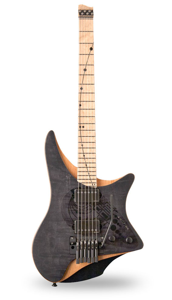 Masvidalien